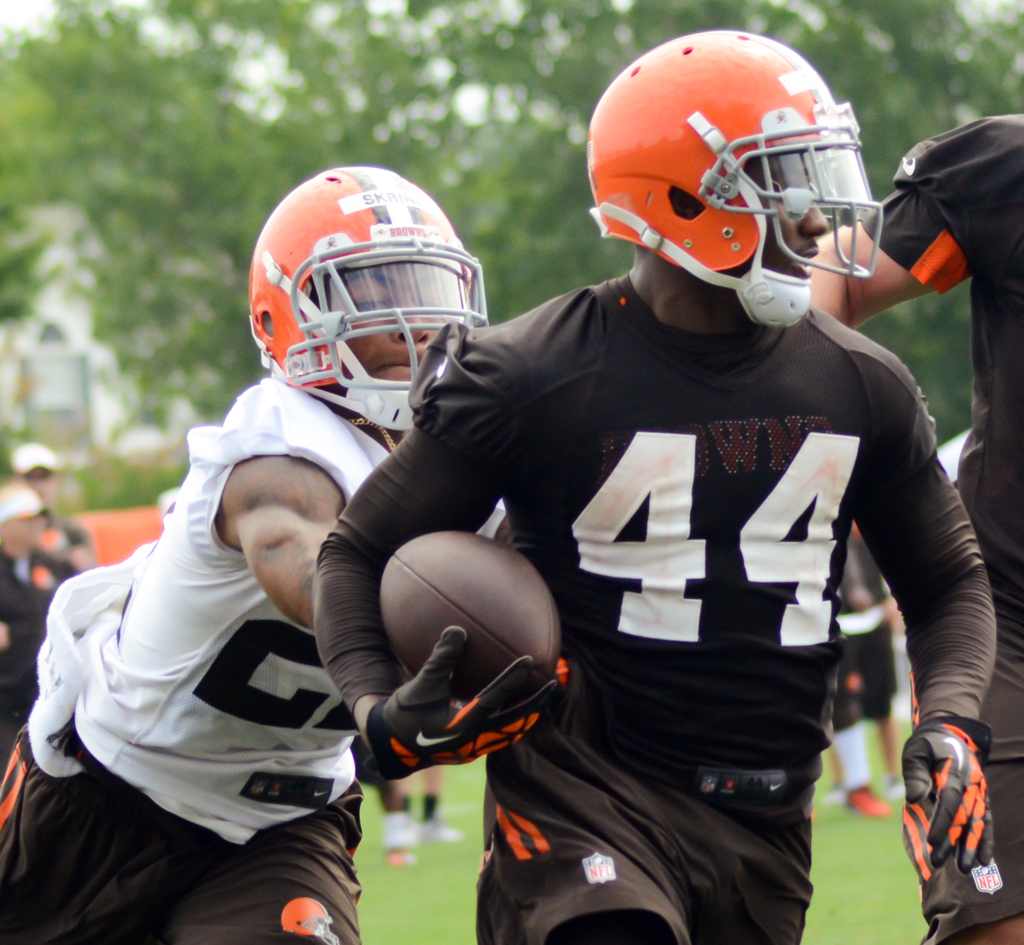 Ben Tate at 2014 Browns training camp.